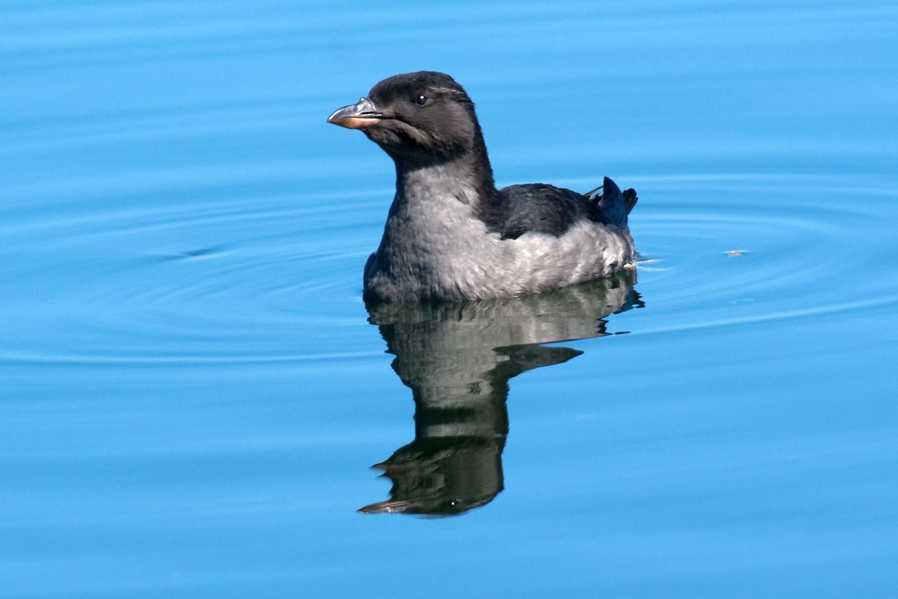 A Rhinoceros Auklet swimming at Protection Island National Wildlife Refuge, Jefferson County, Washington, USA.